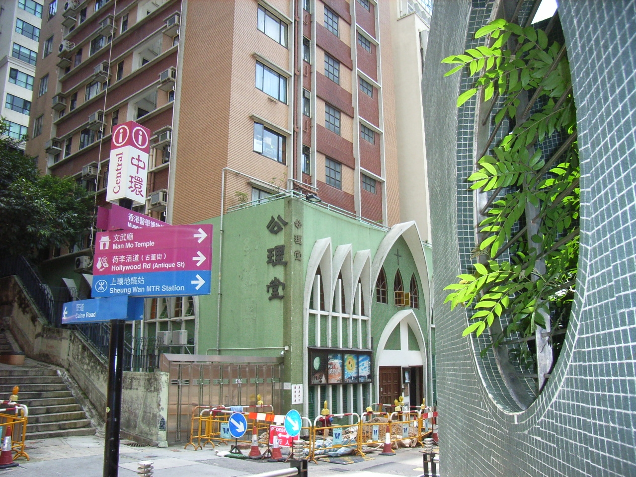 China Congregational Church (Bridges Street), 公理堂必列者士街堂 上環區 photo by User:C3SW628 公理堂大廈